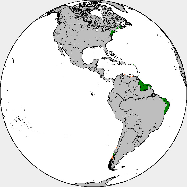 Dutch in the Americas